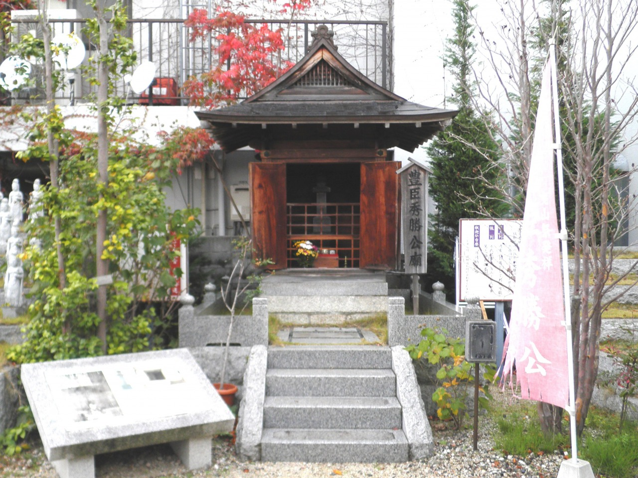 Mausoleum of Hashiba Hidekatsu at Myōhō-ji in Nagahama, Shiga.